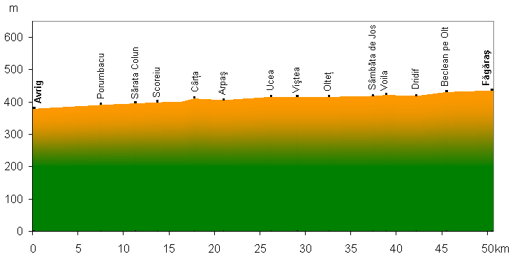 elevation profile of the railway track Avrig-Fagaras